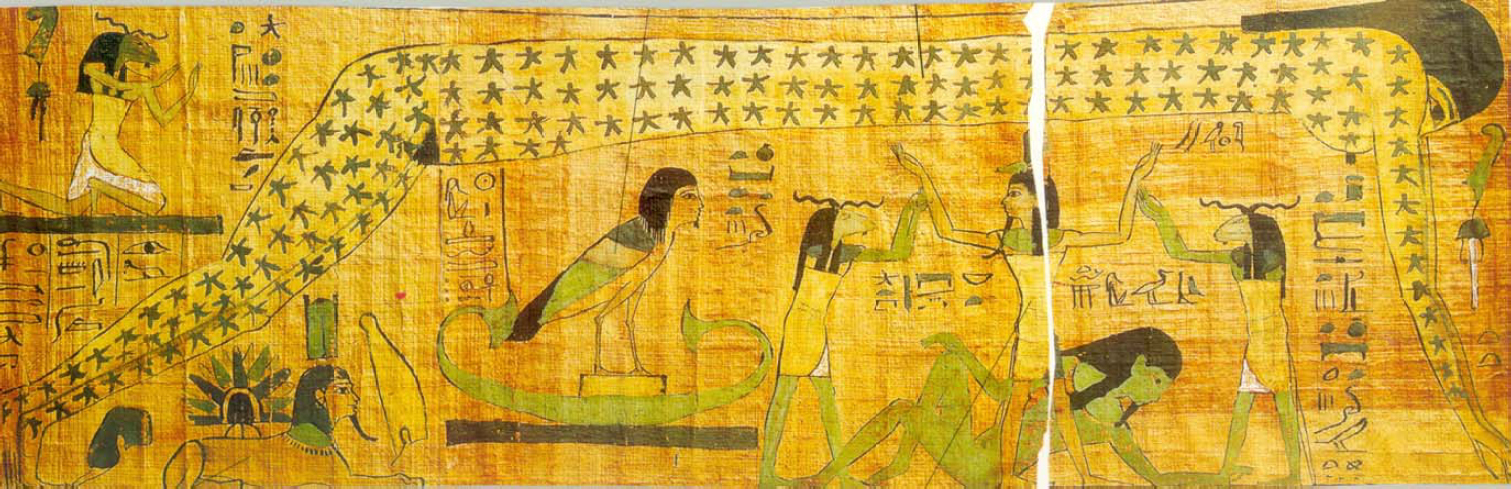 A 3000 year-old vignette from the Djedkhonsuiefankh funerary papyrus on display in the Cairo Egyptian Museum.